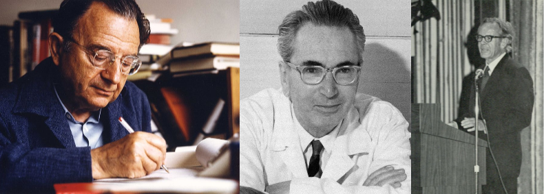 Prof. Dr. Franz Vesely / CC BY-SA 3.0 DE ( Müller-May / Rainer Funk / CC BY-SA 3.0 (DE)